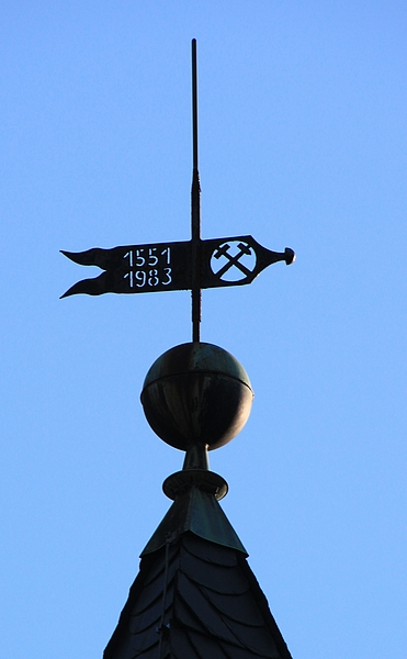 This image shows the weather vane of the limestone mine in Lengefeld in the Ore Mountains.